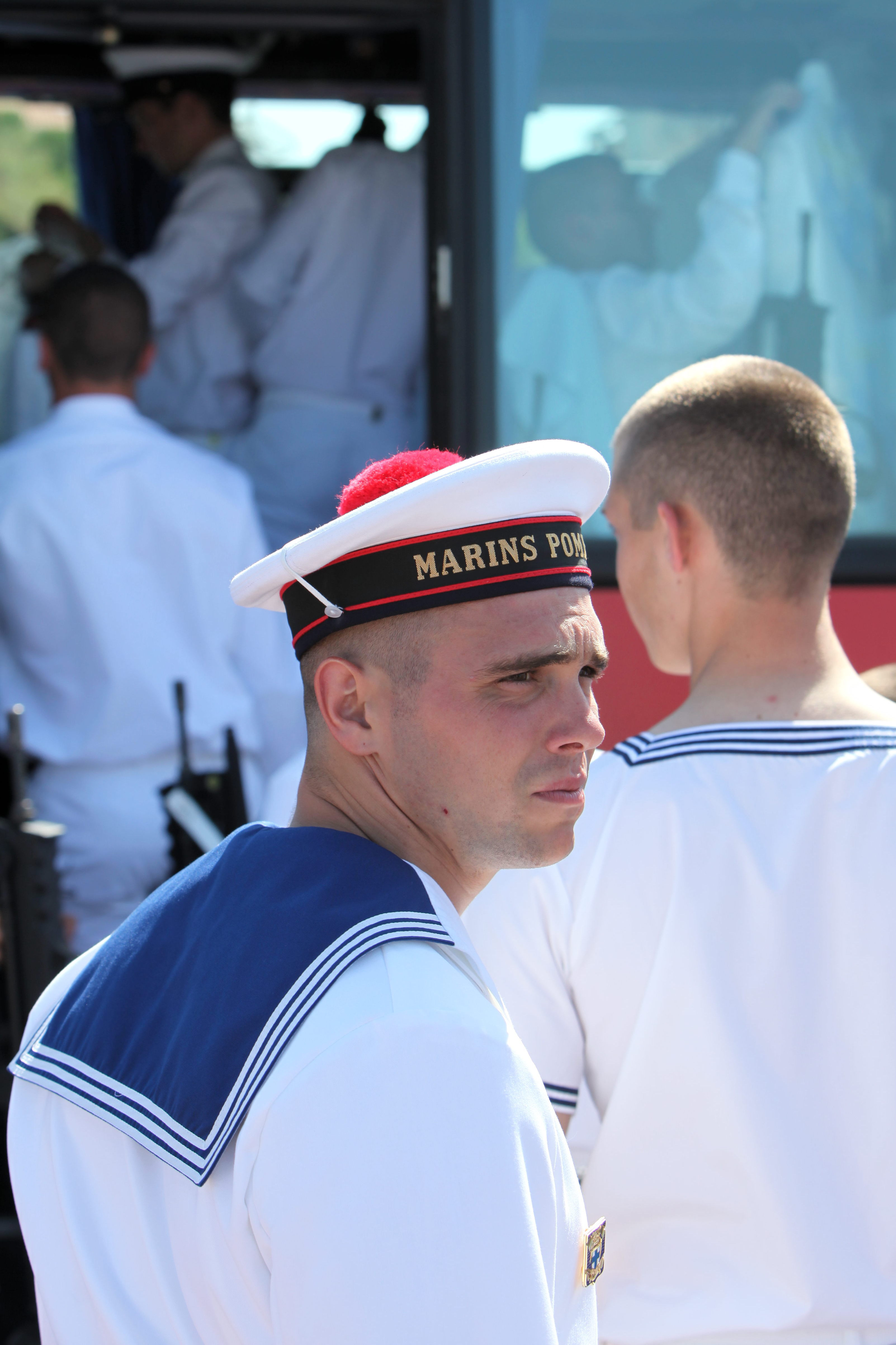 Sailor of the Marseille Naval Fire Battalion during the military parade of 14 July 2012 in Marseille. The making of this document was supported by Wikimédia France. (Submit your project!)